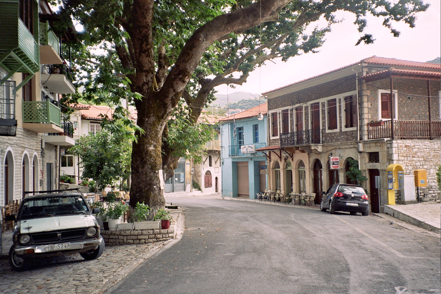 Andritsena, Greece